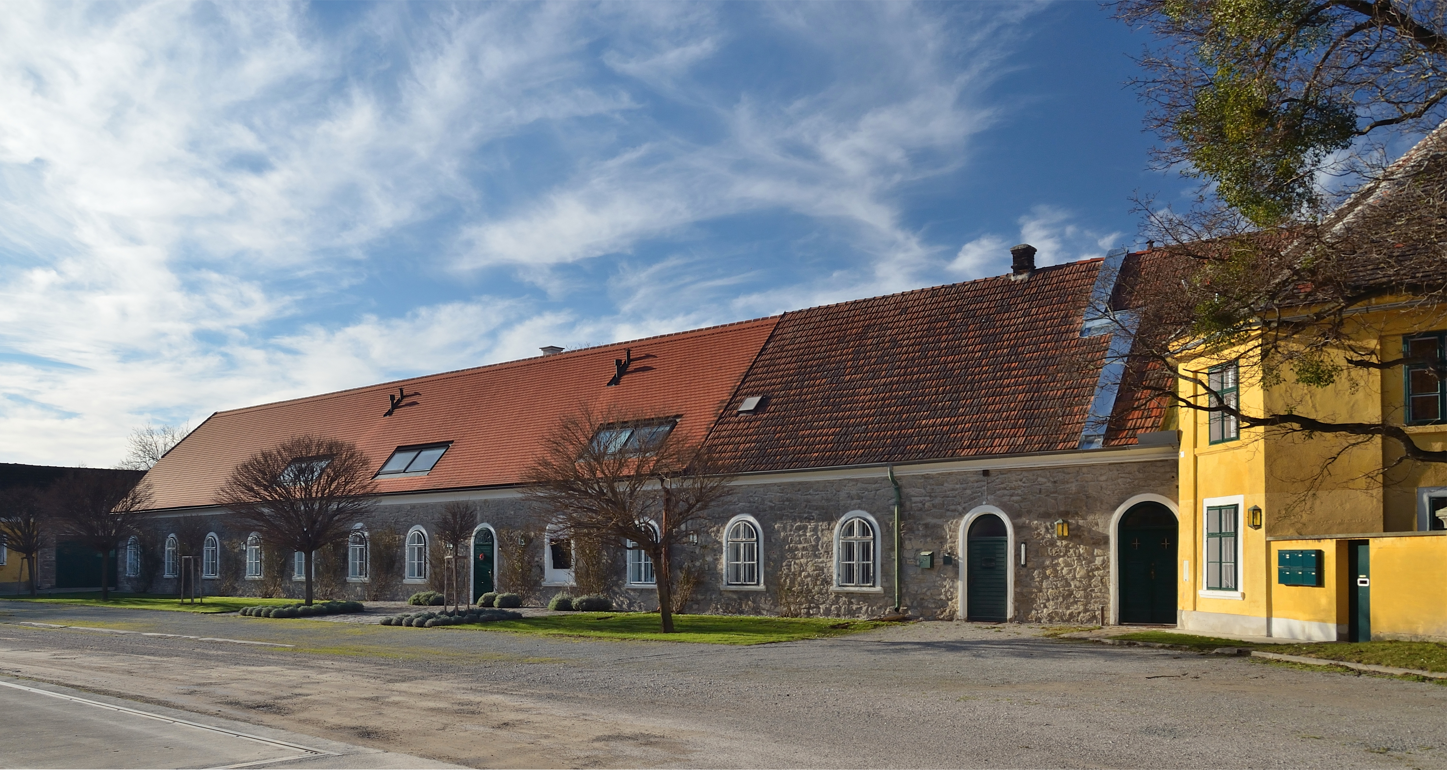 Water castle Ebreichsdorf, Lower Austria.